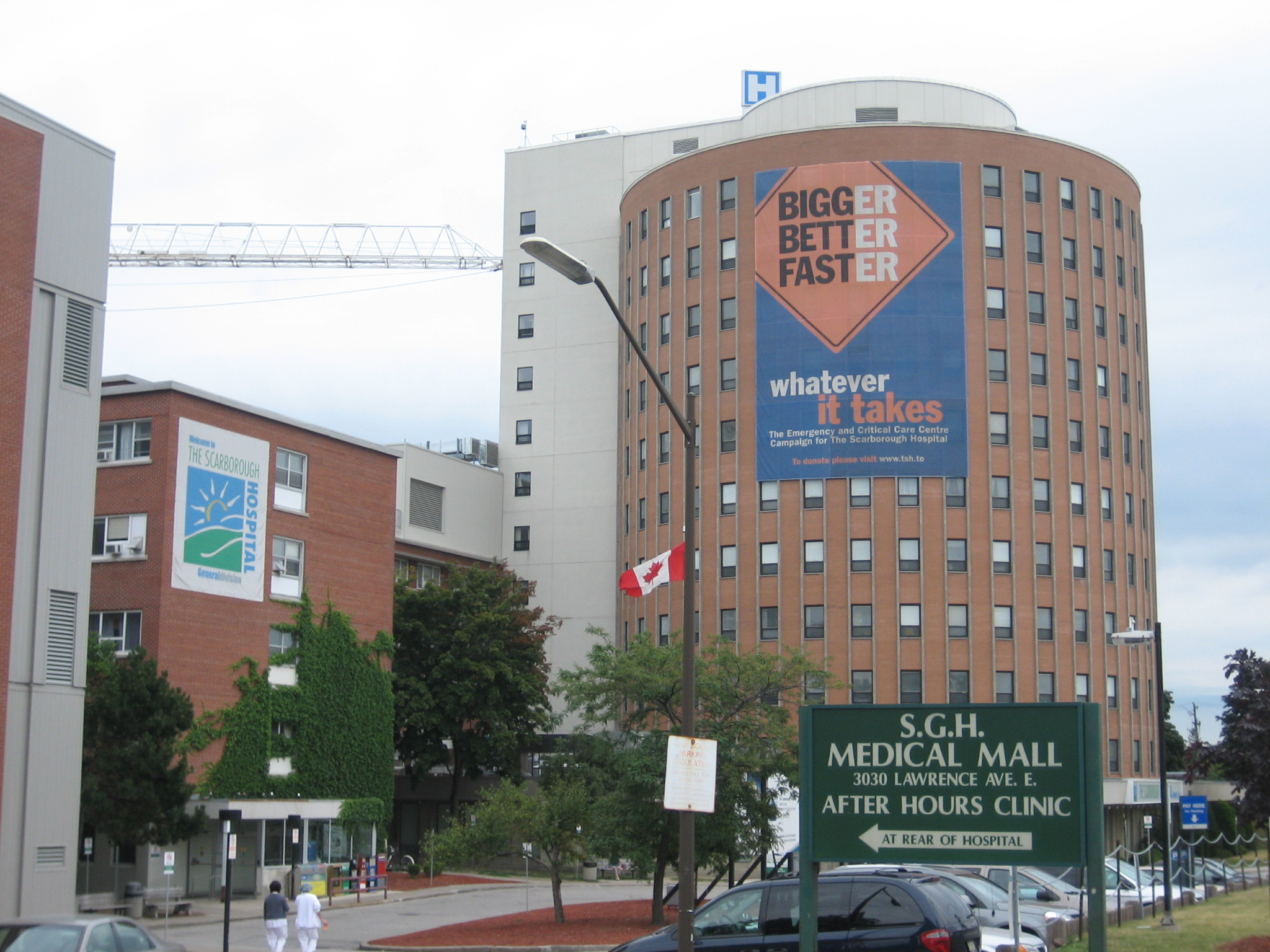 The Scarborough Hospital